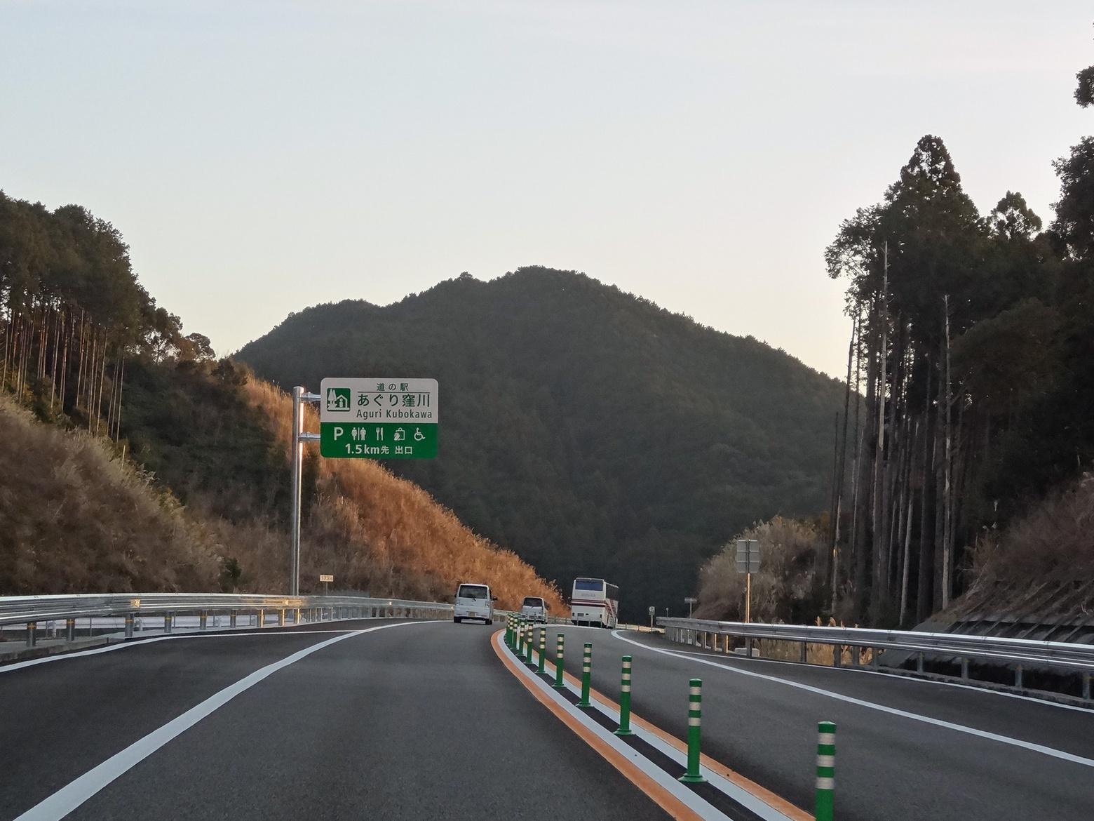 The Kochi Expressway in Shimanto Town, Kochi Prefecture, Japan.